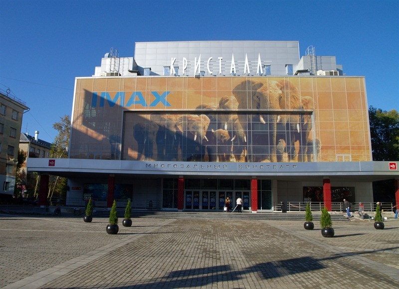 IMAX Movie Theatre "Kristall" in Perm